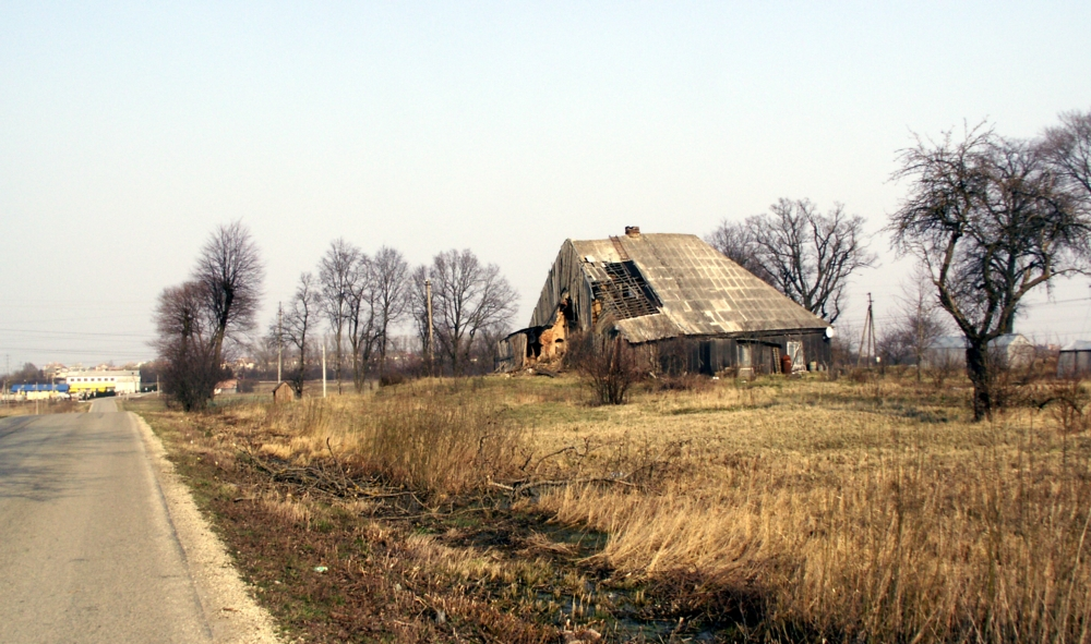 Andrijavas, Šiauliai district, Lithuania